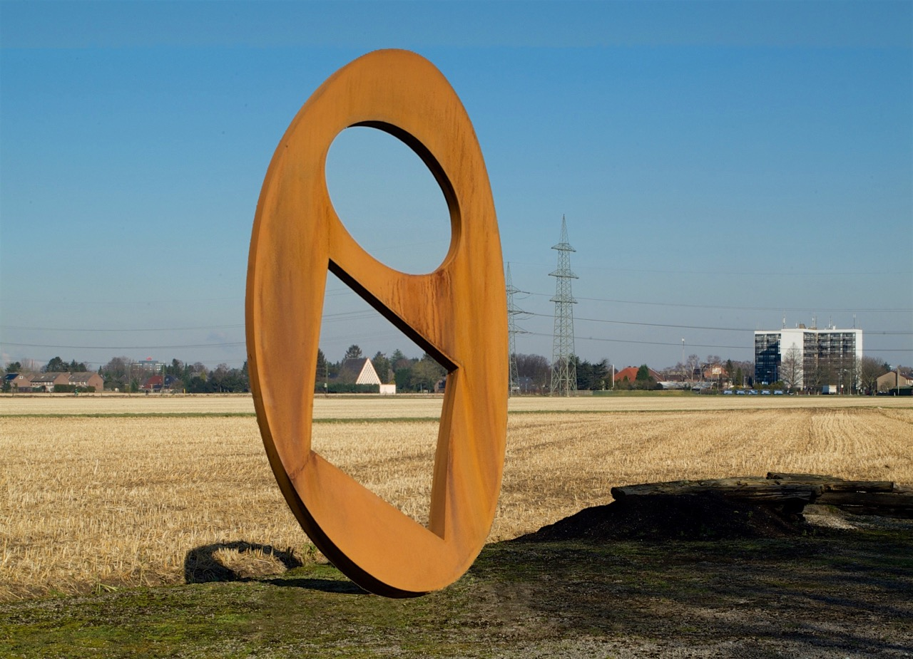 Ernst Hesse, sculpture 2016 (o.T. Communications)